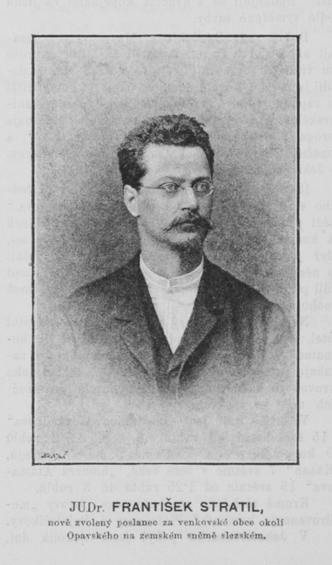 Photograph of František Stratil (1849-1911), Czech attorney in Opava, deputy of a Silesian assembly and a leader of Silesian Czechs.